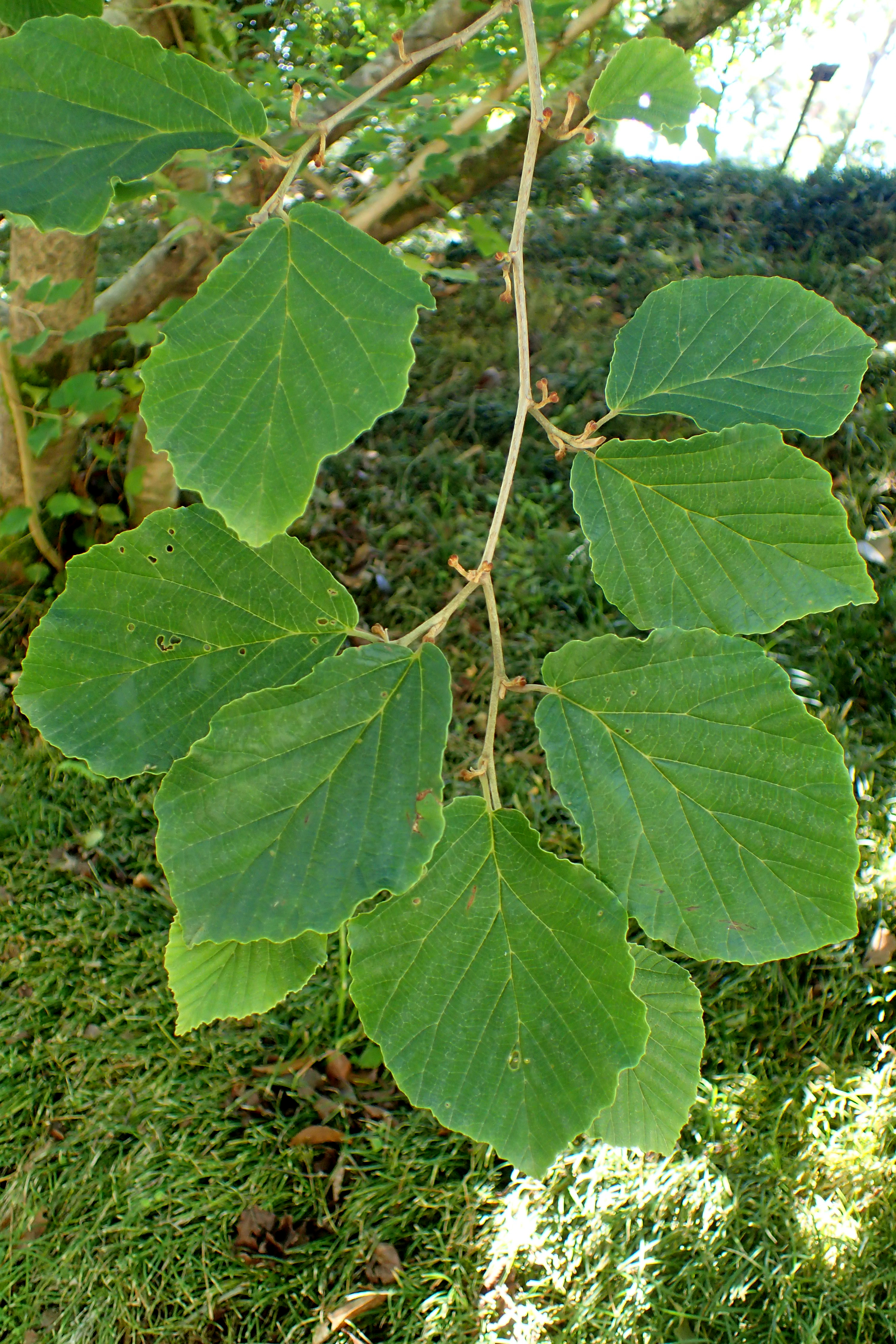 Hamamelis japonica in botanical garden in Batumi